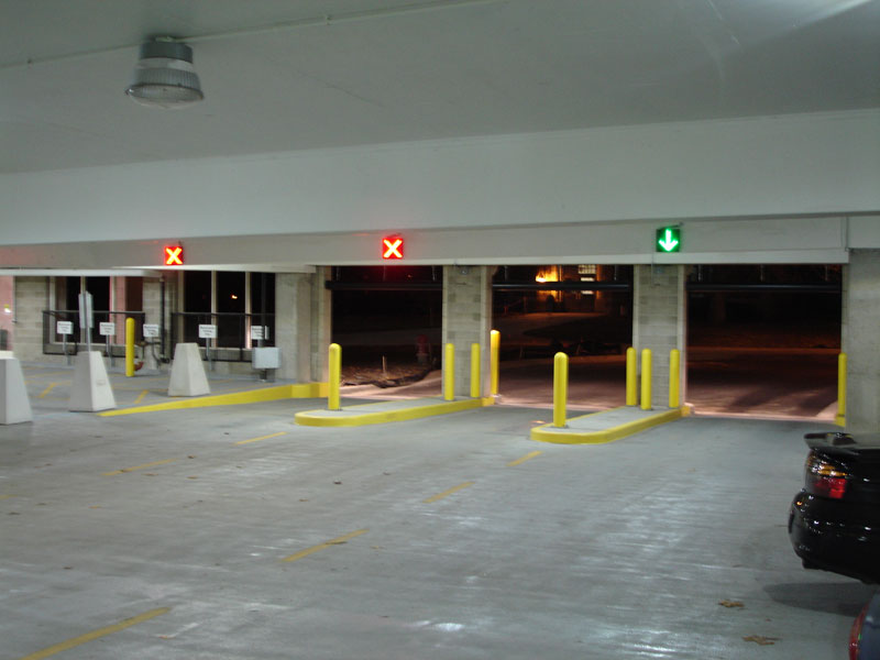 Lane control signals in a parking ramp. Taken by myself in Ramp #6, Michigan State University, East Lansing, Michigan. I release it into public domain.